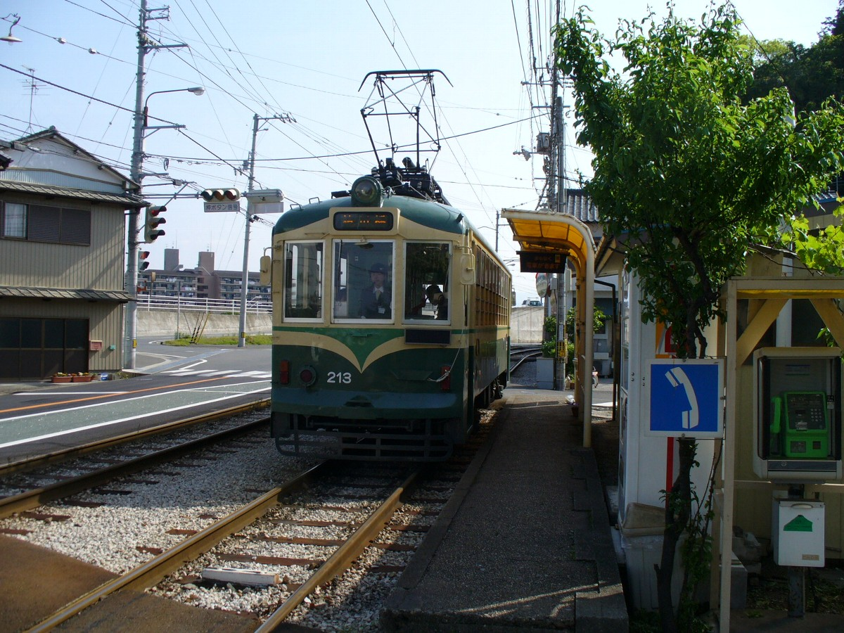 Tabeshimadori tramstop of Tosa Electric Railway.